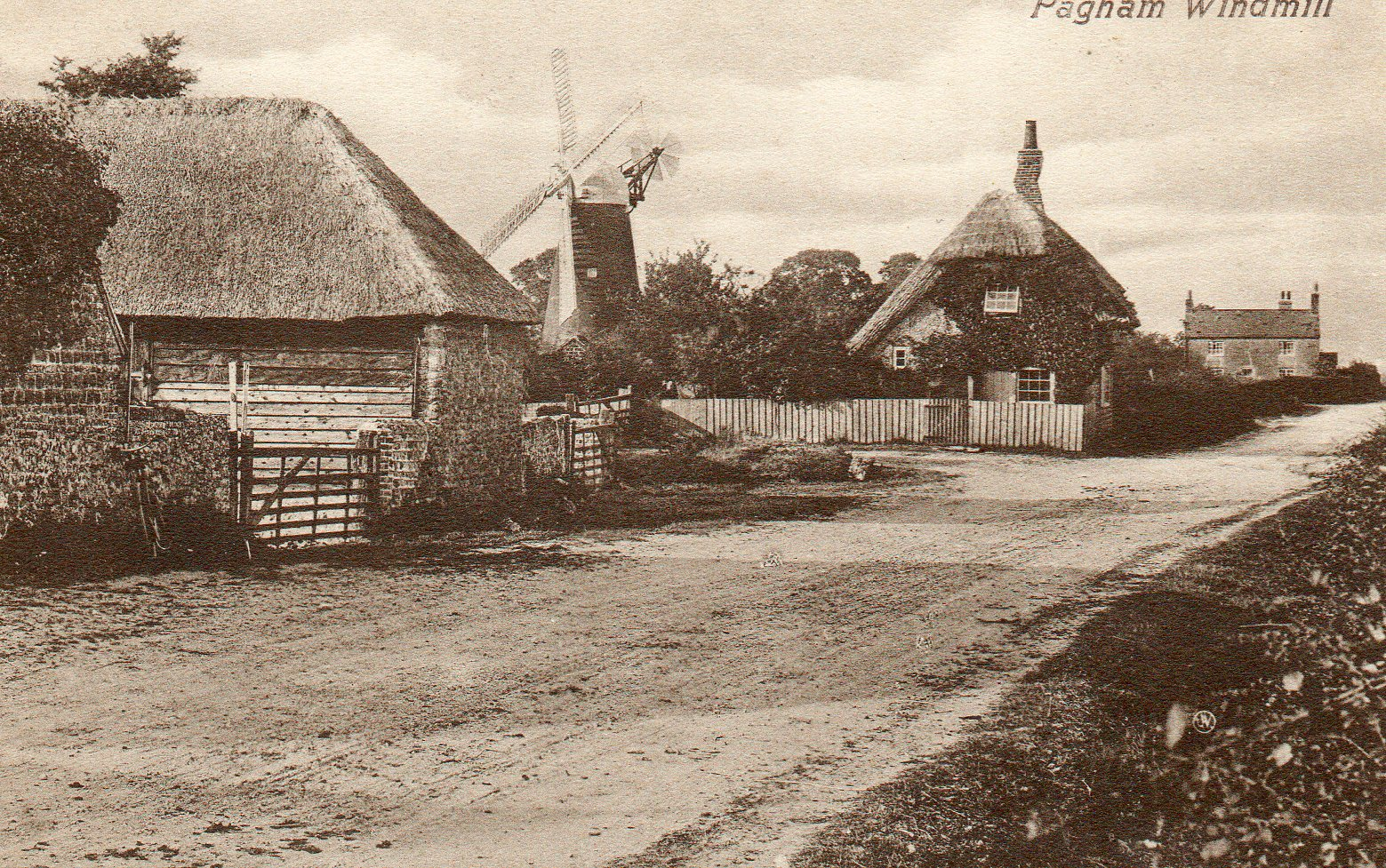 Pagham windmill from an old postcard. Mill lost sails in 1915